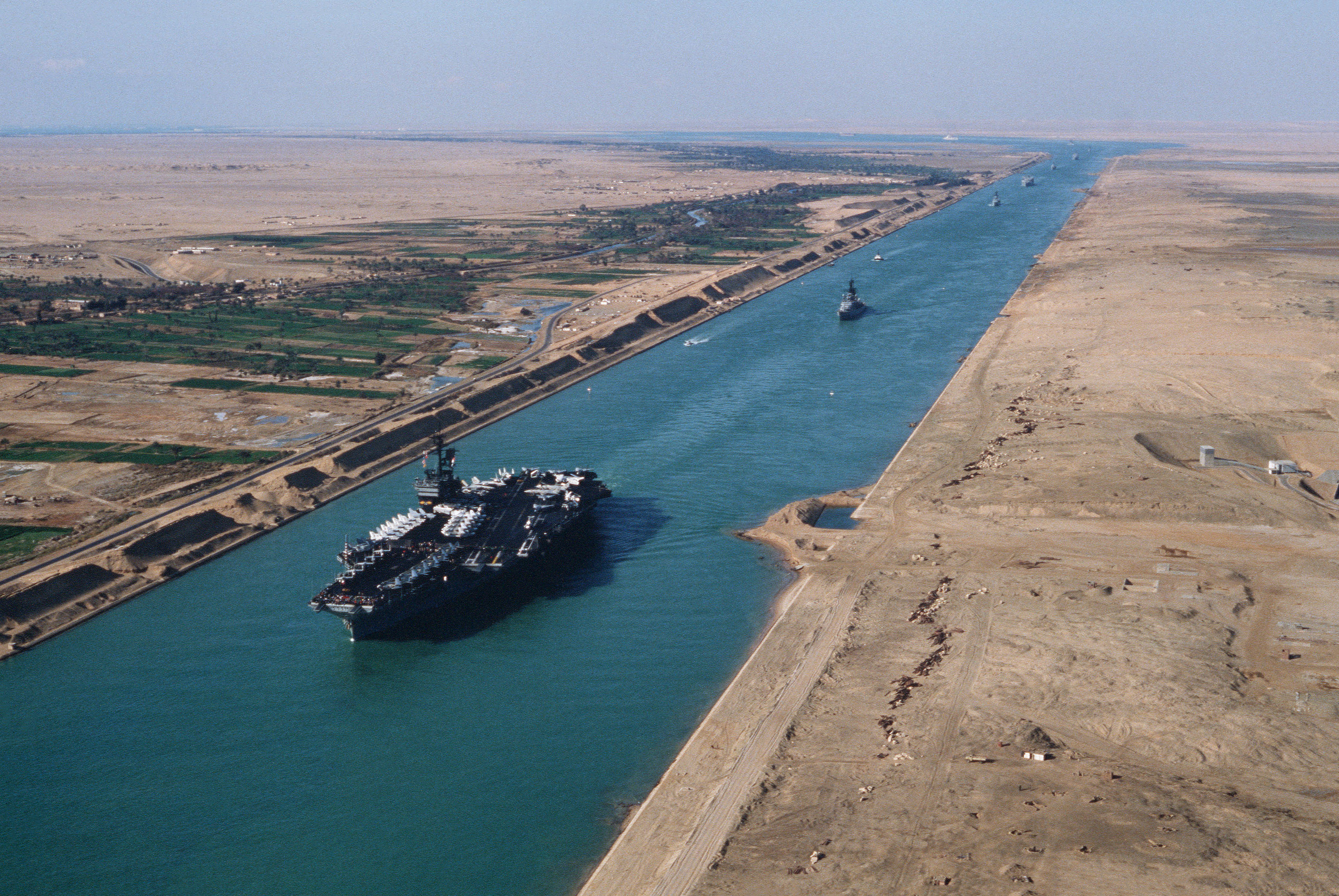 An aerial port bow view of the aircraft carrier USS AMERICA (CV 66) during its transit through the canal.